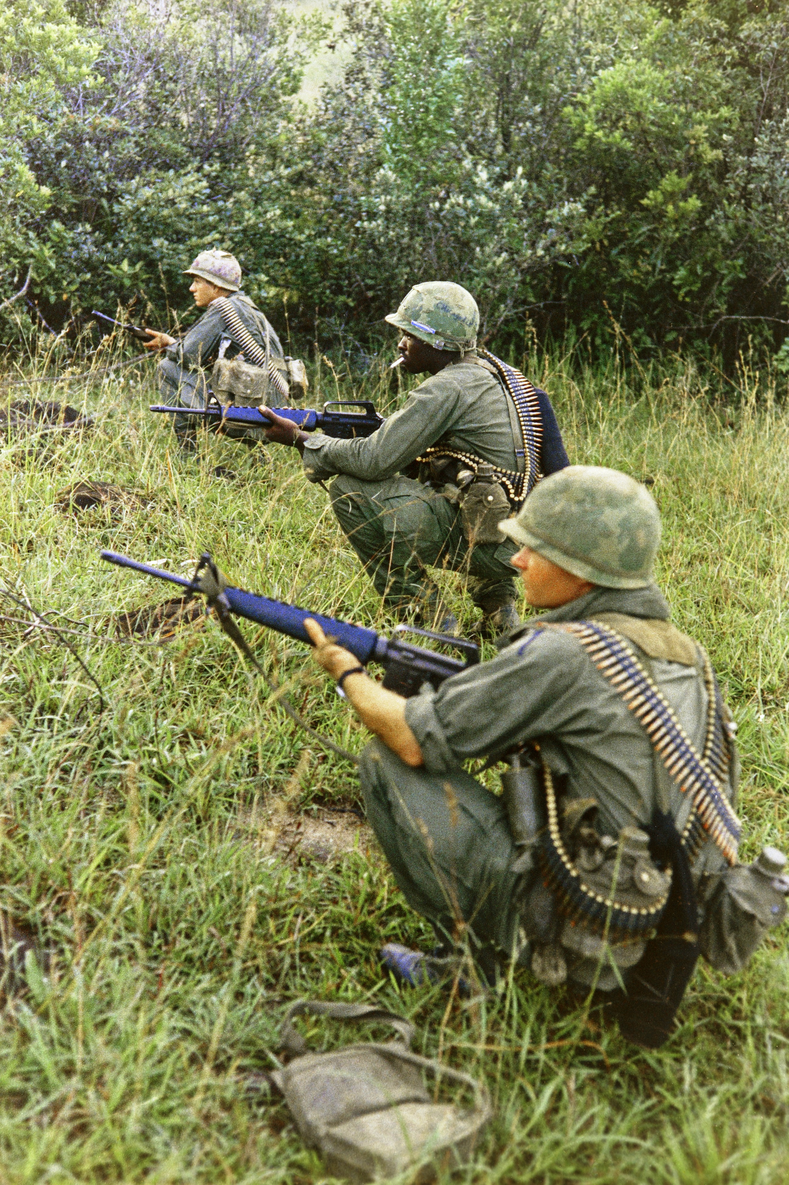 Members of Company D, 2nd Battalion, 35th Infantry, 3rd Brigade, 4th Infantry Division, who came in on the first wave of helicopters secure the landing zone for the remainder of company during a helicopter combat assault and a one day search and destroy mission in the Quang Nagi Province, 8km west of Duc Pho.